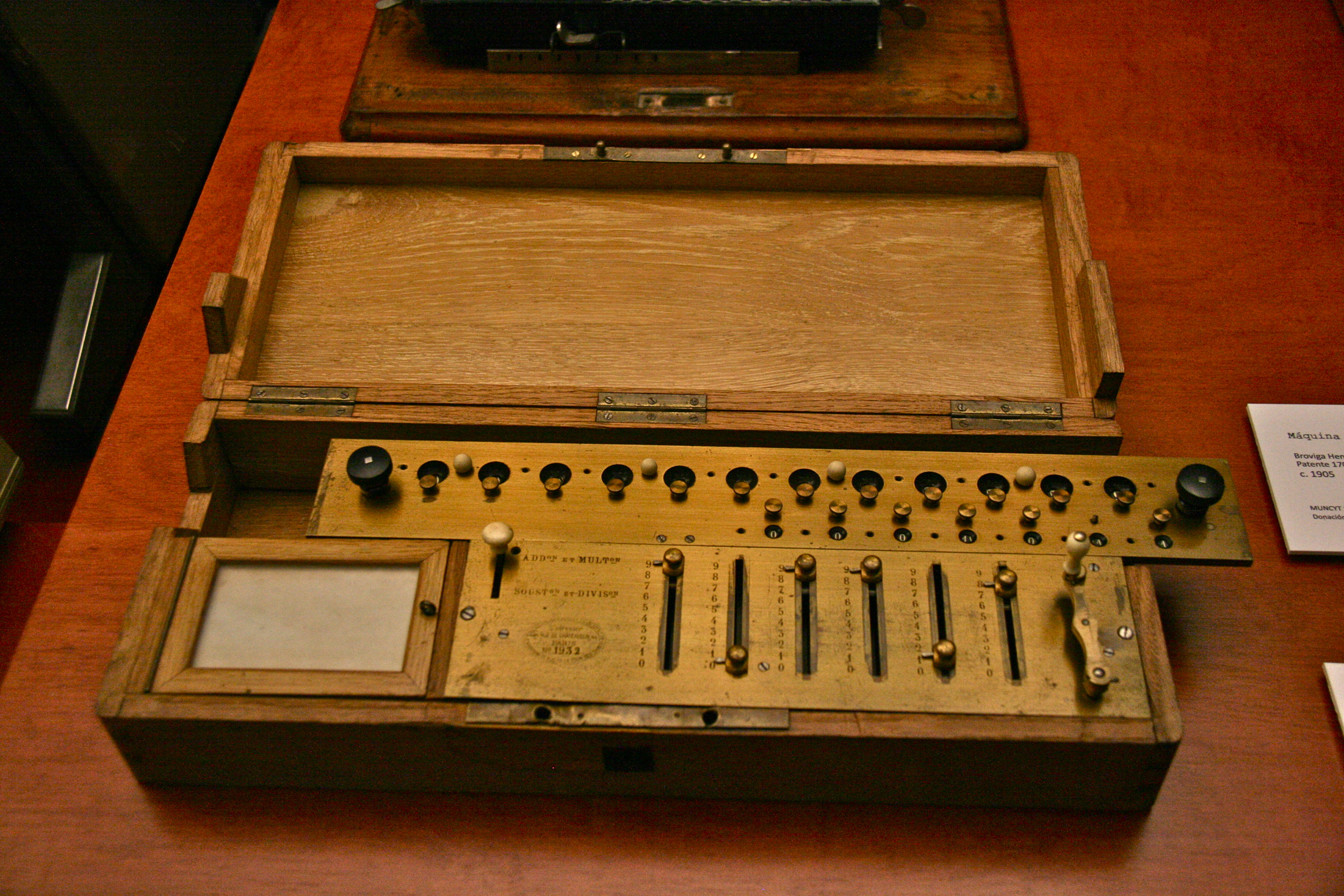 Arithmometer